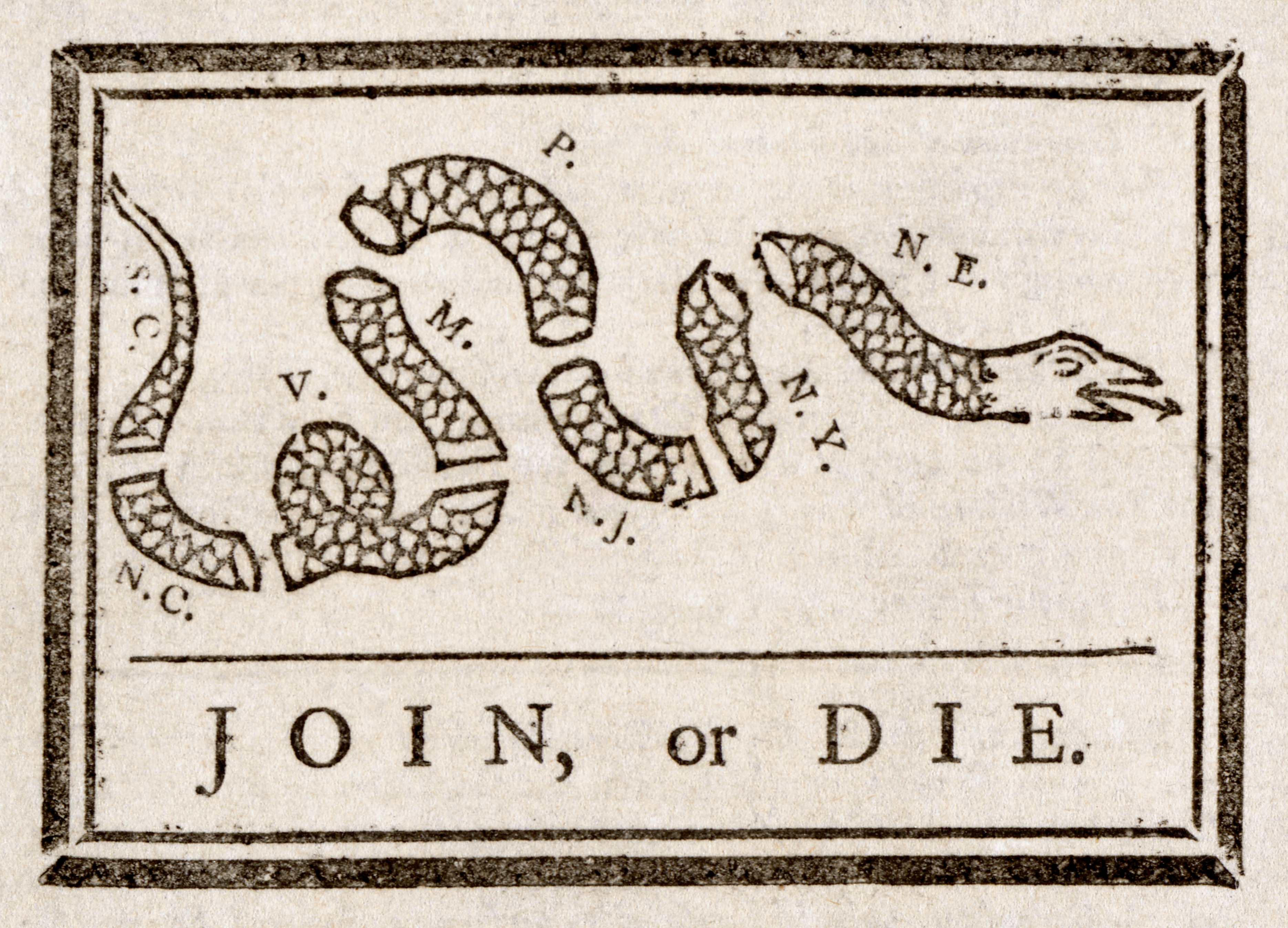 This political cartoon (attributed to James Turner (silversmith) for Benjamin Franklin) originally appeared during the French and Indian War, but was recycled to encourage the American colonies to join the Albany Plan for Union. From The Pennsylvania gazette, 9 May 1754. Abbreviations used: Georgia, South Carolina, North Carolina, Virginia, Maryland, Pennsylvania, New Jersey, New York, and New England. The practice of grouping the colonies east of New York (New Hampshire, Massachusetts, Rhode Island and Connecticut) together as "New England" has a history that goes back to the Dominion of New England, established in 1686, and continues informally through to today (eg, the New England Patriots). Delaware was not listed separately because it was comprised of three counties that were part of Pennsylvania, and did not gain independence from Philadelphia until after the Declaration of Independence was asserted. Prior to formal separation from Pennsylvania, Delaware was properly referred to as the "Lower Counties on Delaware". The Province of Georgia was not originally included by Franklin (let alone other British colonies in North America) but was later added and can be see at the tip of the tail. Georgia, the youngest of what would come to be referred to as the "Thirteen Original Colonies", had only been chartered in 1732 as a haven for those incarcerated in England's debtors prisons, and its population was sparse.